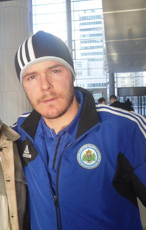 Andy Selva in Warsaw before match against Poland in FIFA World Cup qualification 2014.